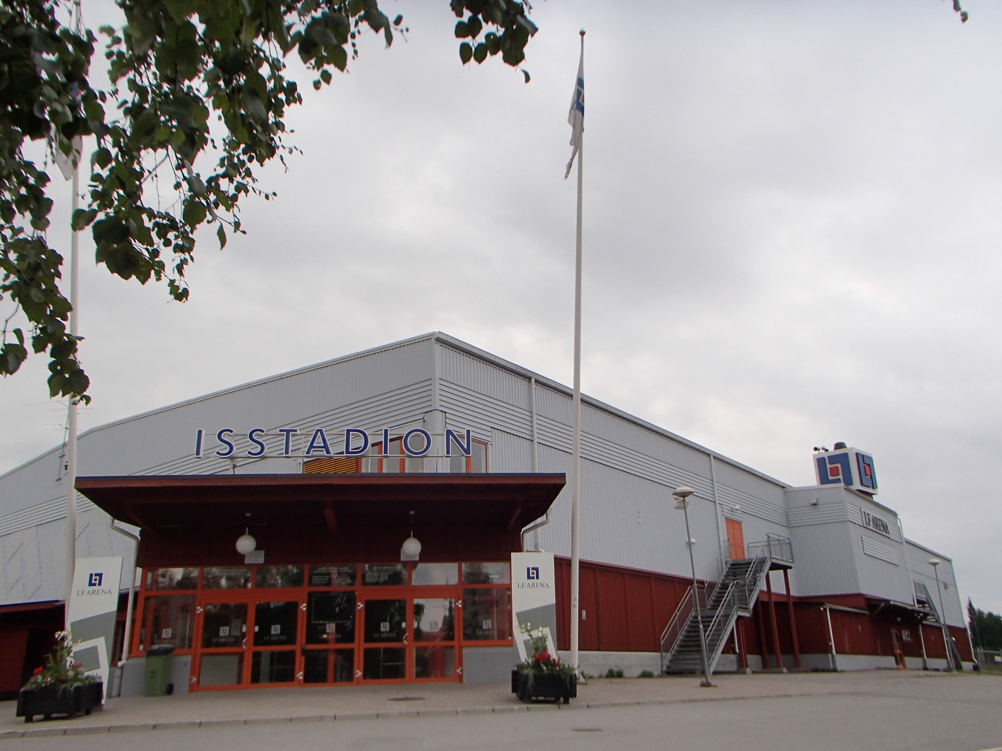 The ice hockey venue "LF Arena" at Hembygdsvägen 11 in Piteå, viewed from south